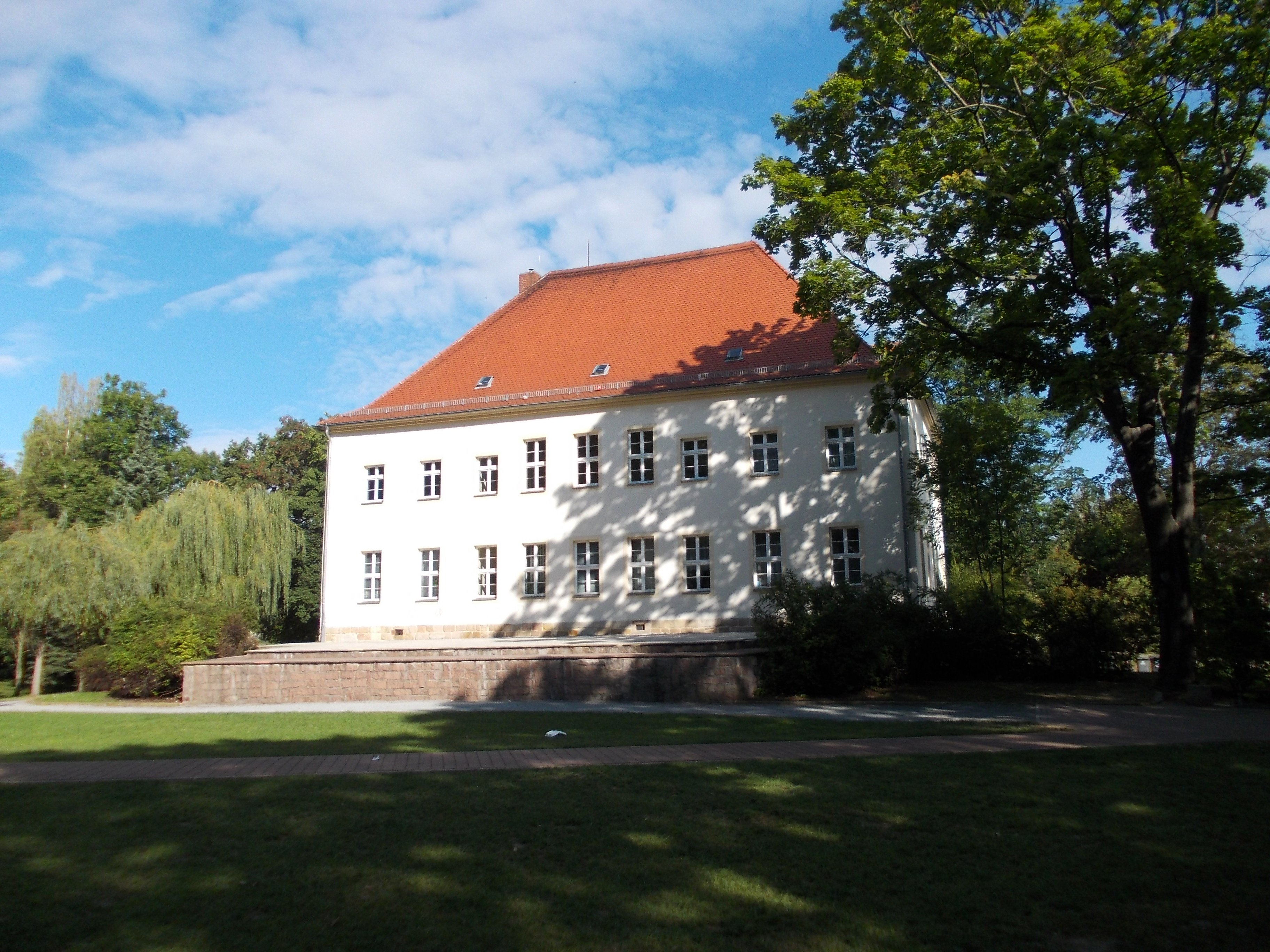 Manor house of Teuchern estate (district of Burgenlandkreis, Saxony-Anhalt)